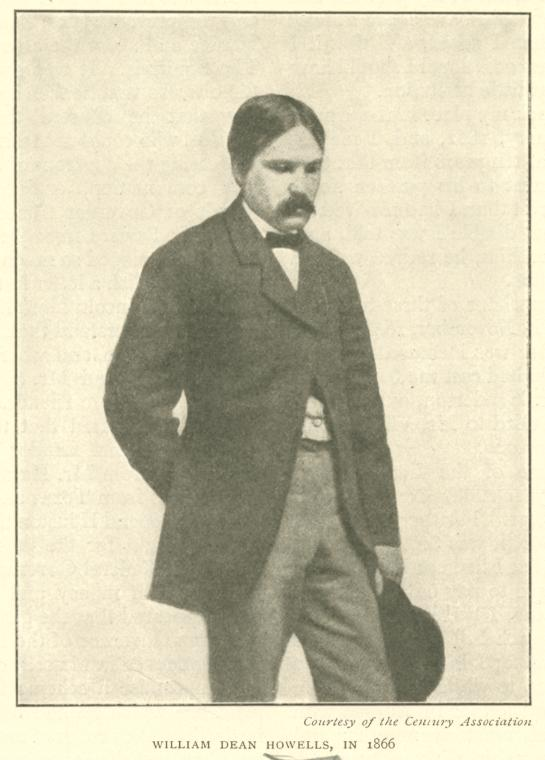 American author/editor William Dean Howells in 1866. "Courtesy of the Century Association". From NYPL Digital Gallery.